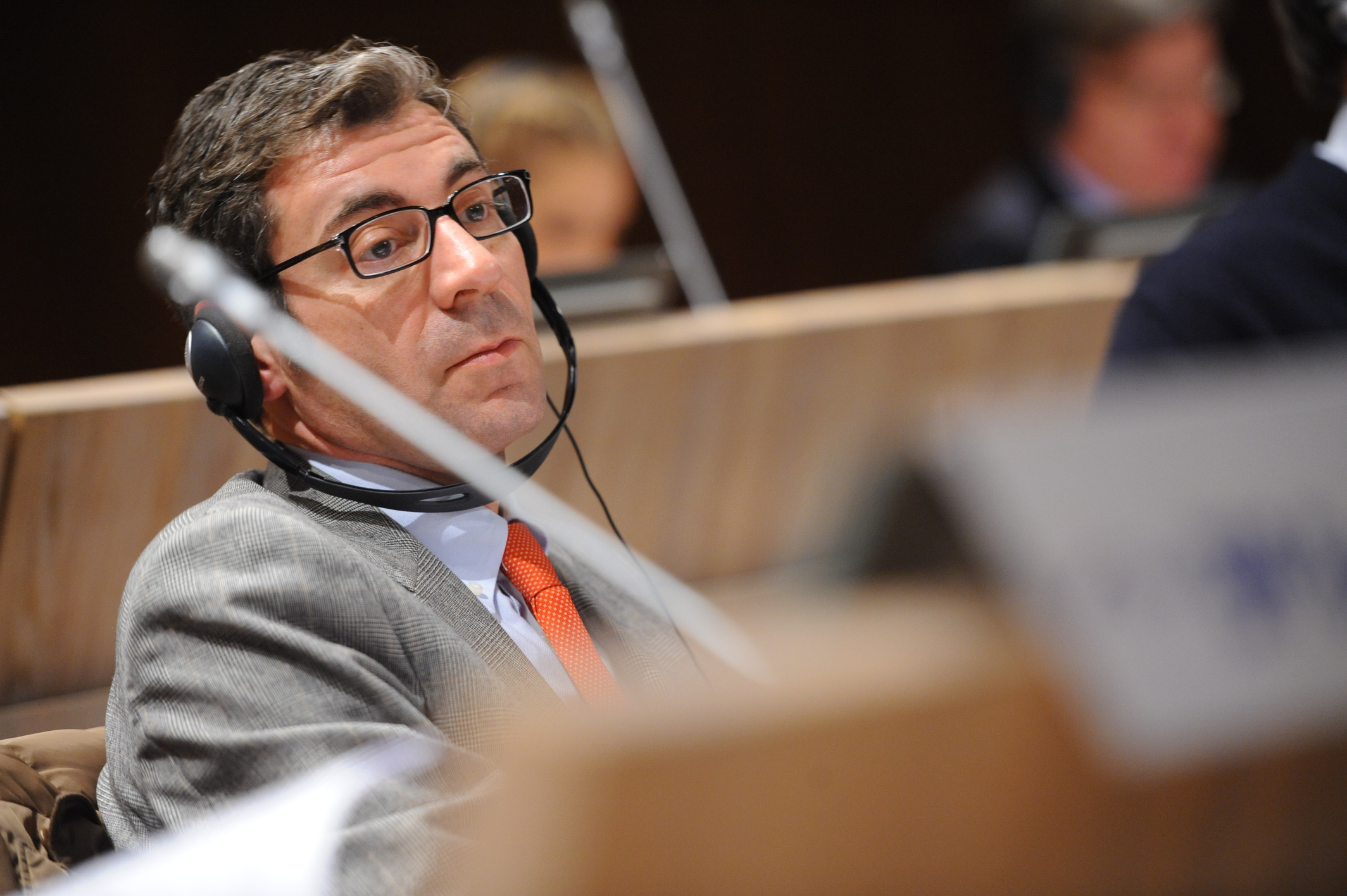 EPP Political Assembly, Marseille 2011 - Luca Volontè